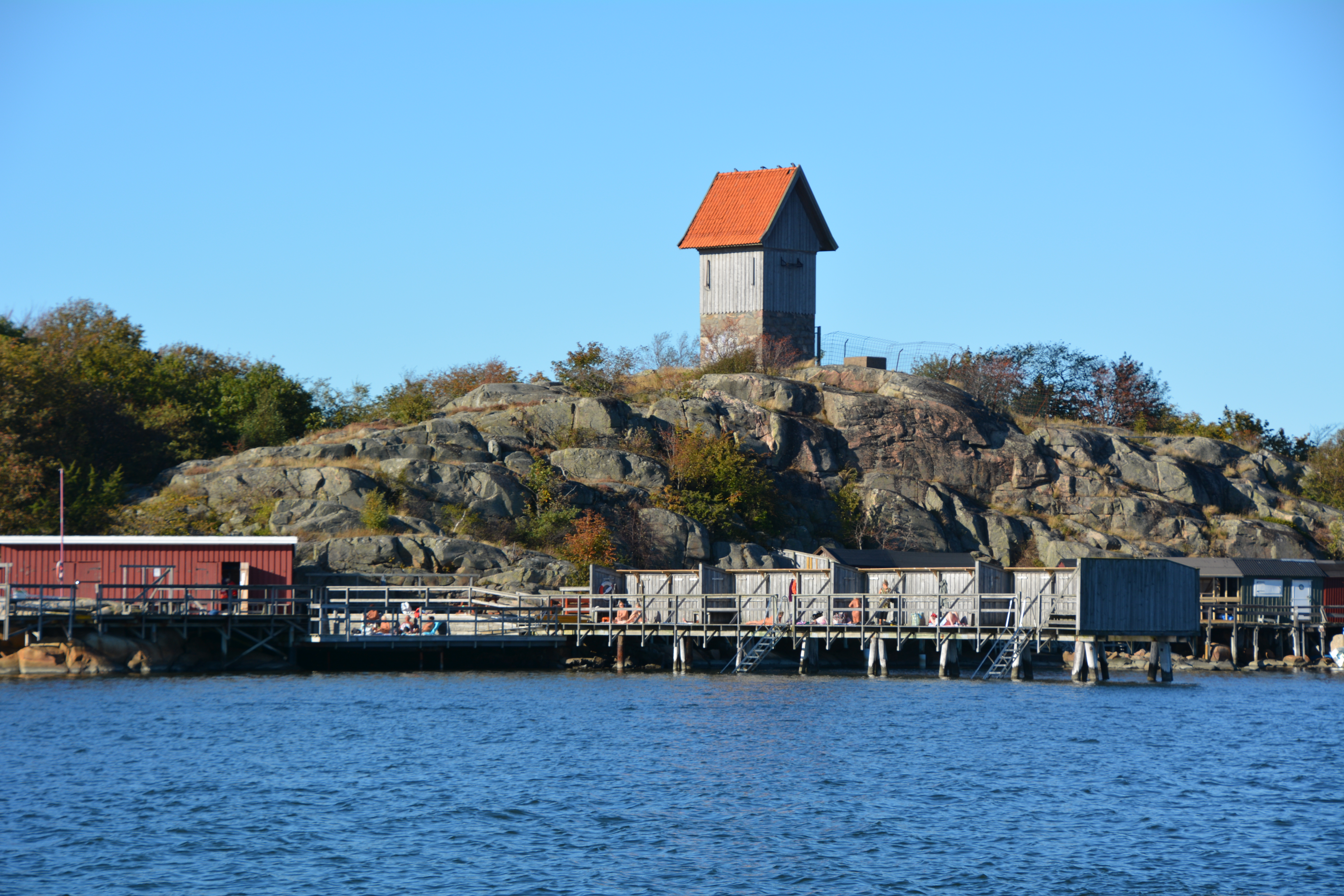 Friluftsbadet för damer på Saltholmen i Göteborg